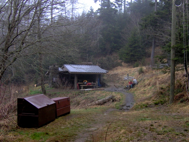 The Tricorner Knob Shelter, just below the summit of Tricorner Knob (el. 6,120 feet/1,865 meters) in the Great Smoky Mountains. The shelter is one of the most remote structures in the state of Tennessee, being a 9 mile (14km) hike from the nearest parking lot.